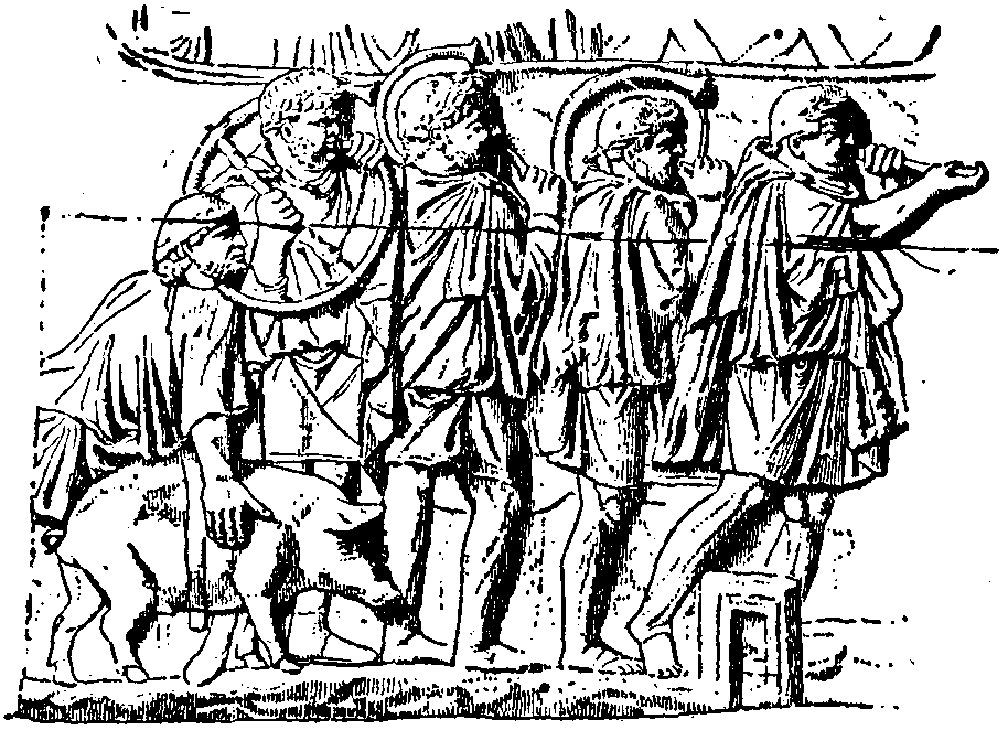 An excerpt of the reliefs on Trajan's Column showing the Roman cornua and buccina (horns).